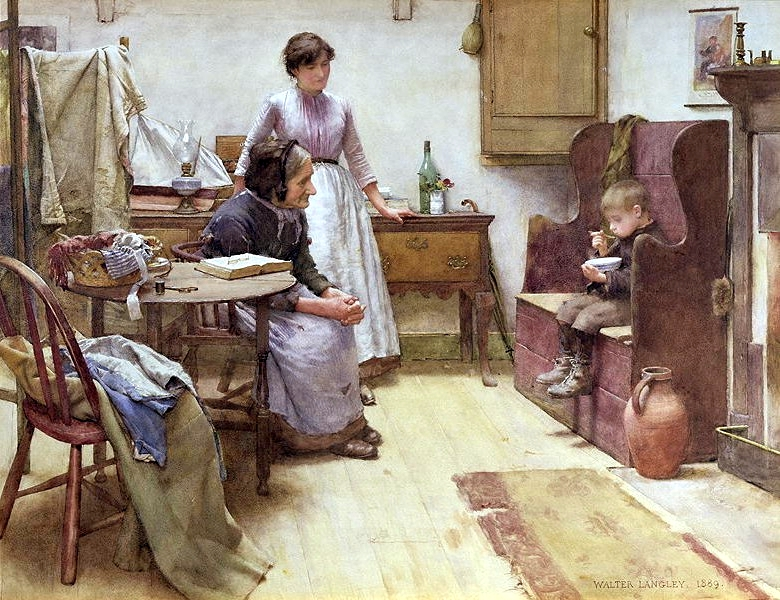 The Waif